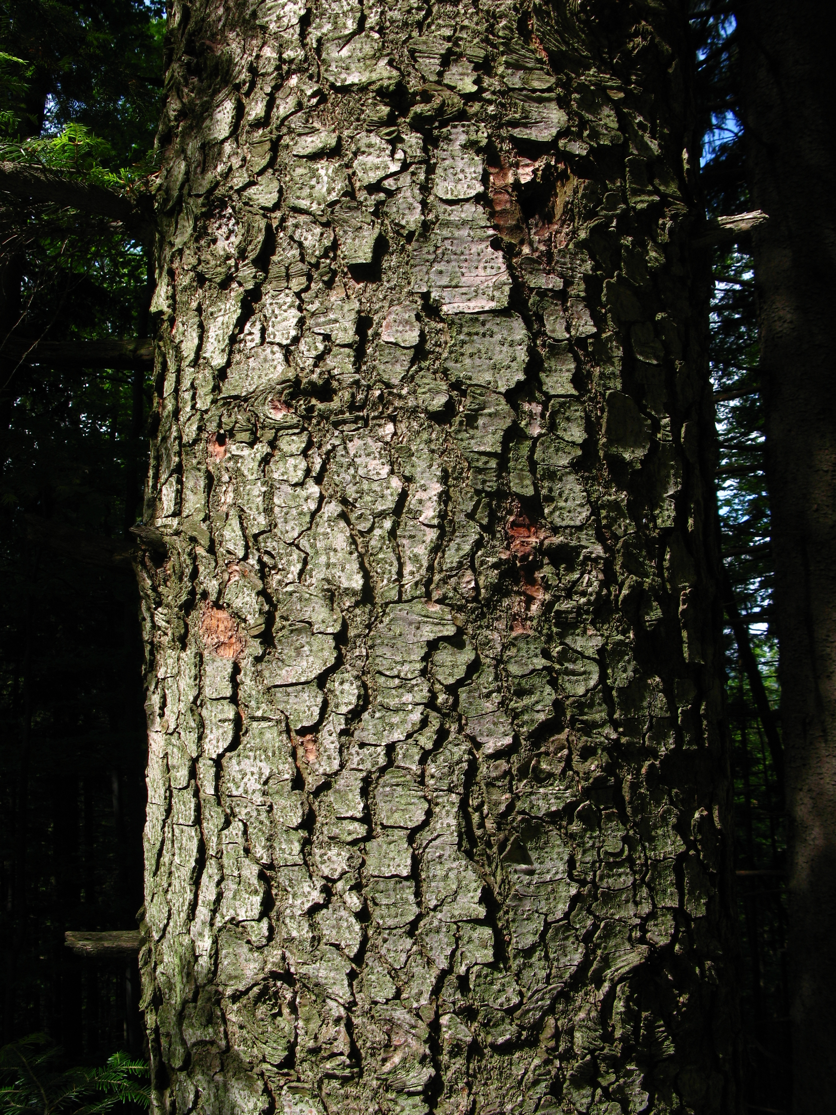 Abies alba bark; Malá Fatra, Slovakia